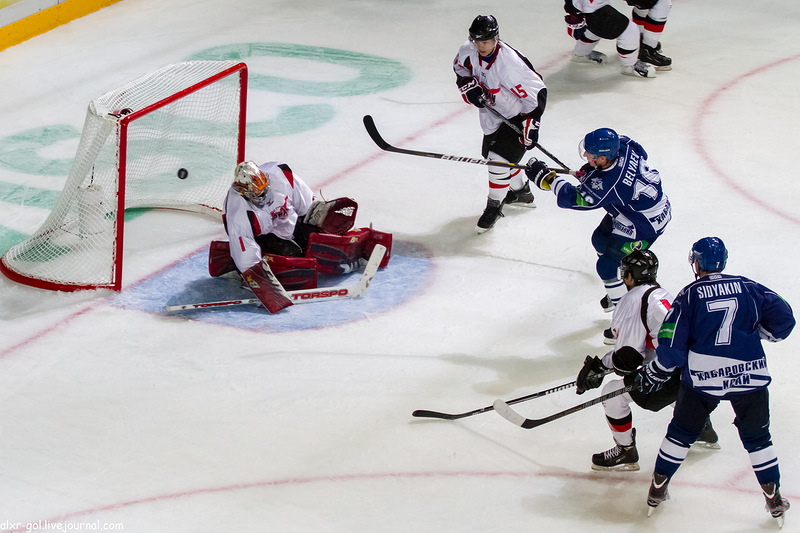 Exhibition game Amur Khabarovsk vs. Japanese national team on August 25, 2012. Amur forward Maxim Belyayev hits the goalpost.